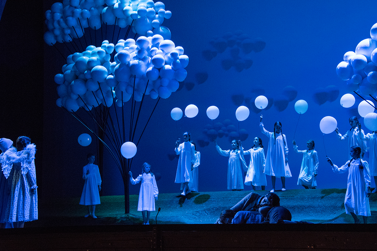 Hänsel und Gretel, Staatsoper Wien 2015